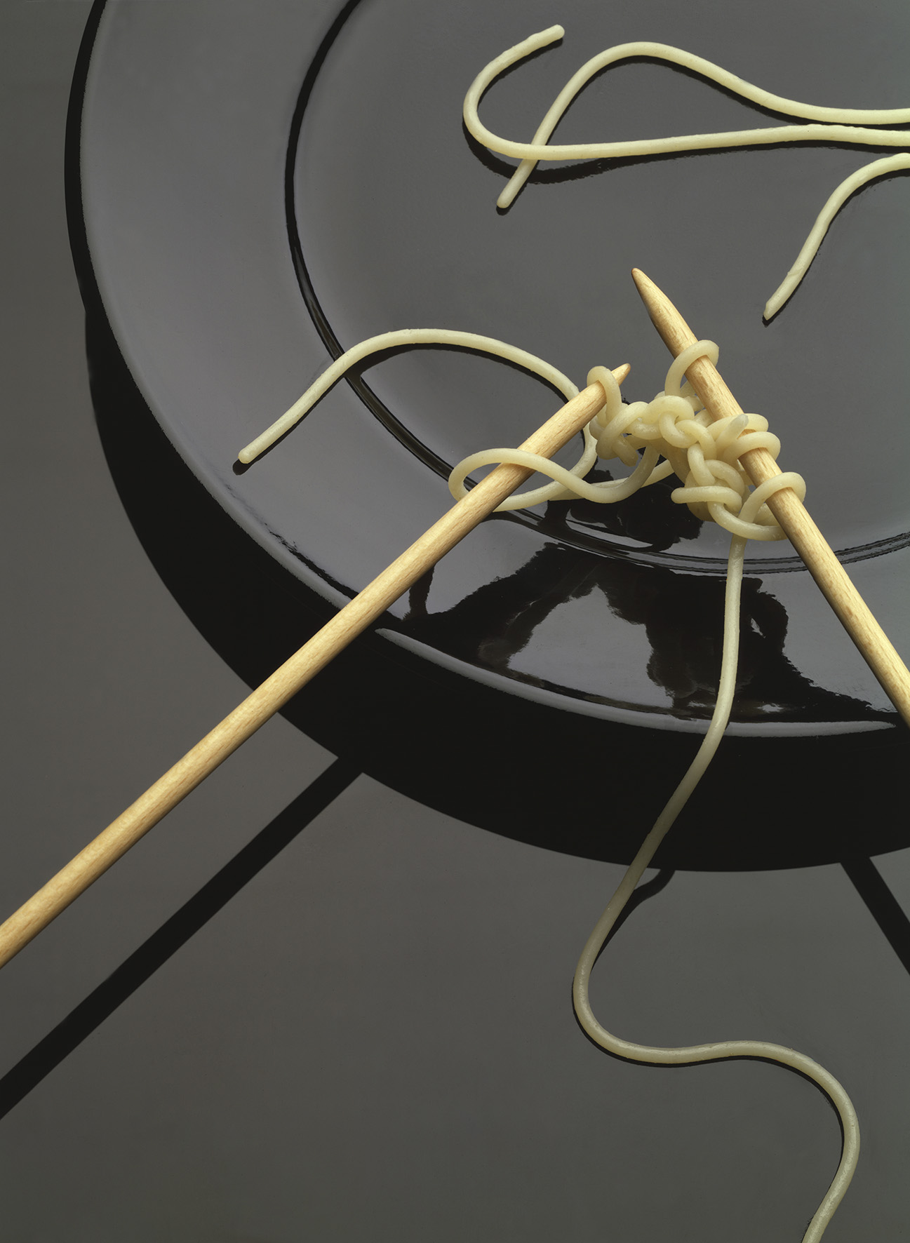 Otto Kasper Foto Spaghetti